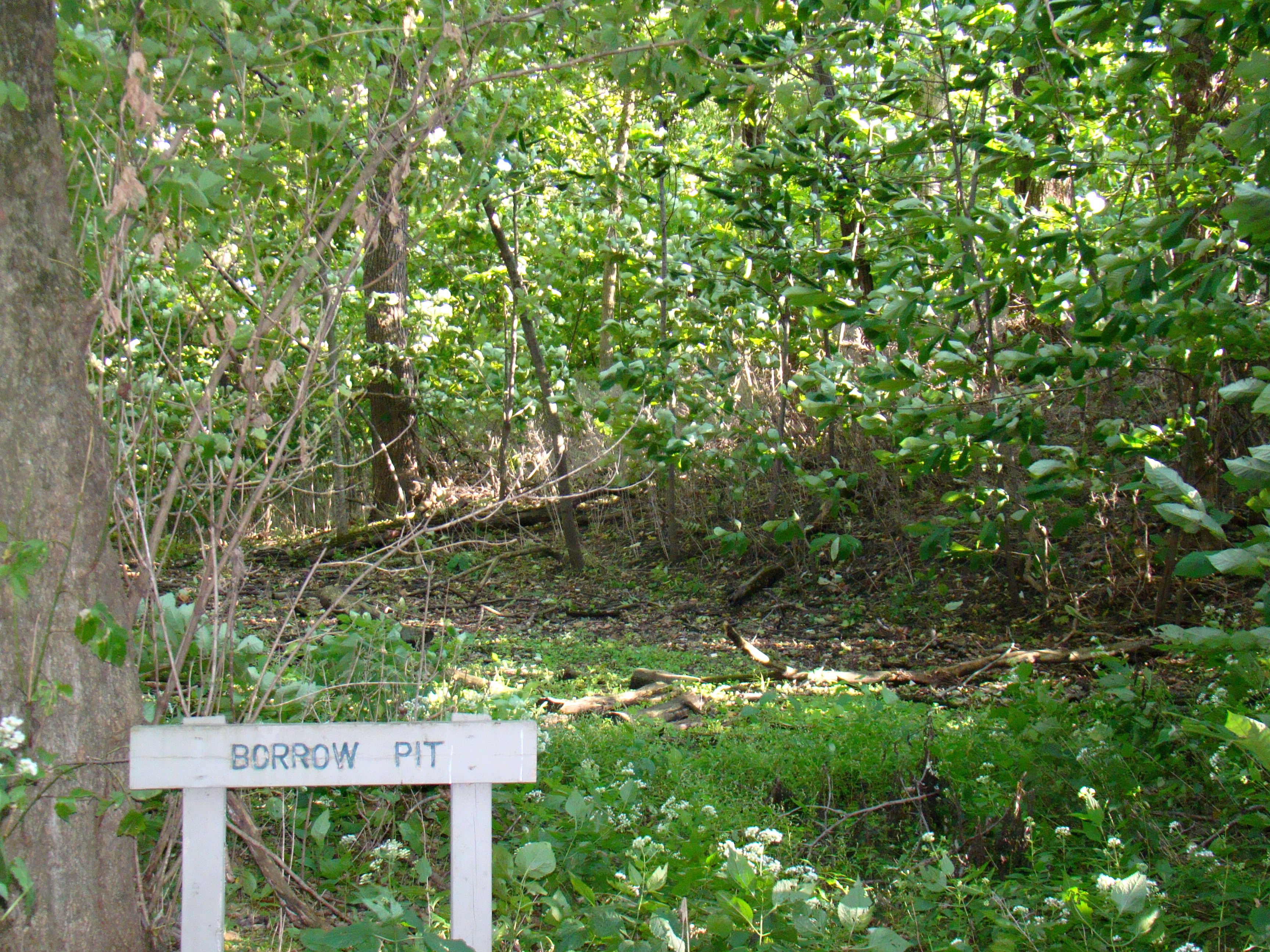 Shawnee Lookout Archeological District: Miami Fort Trail